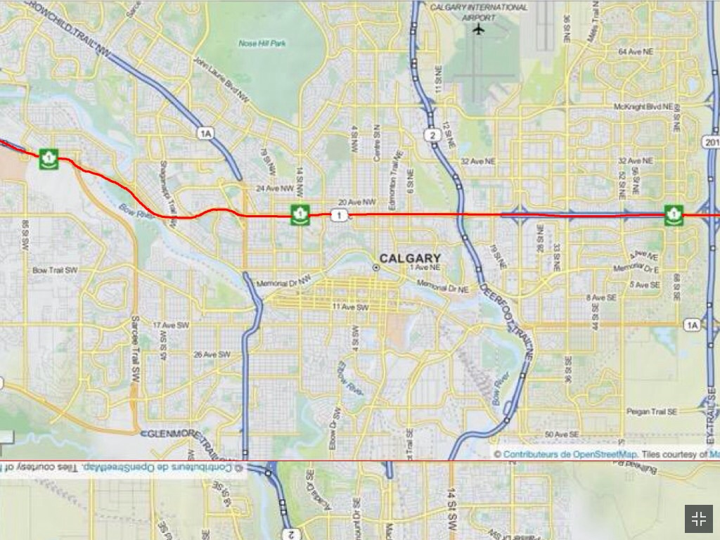 Map of a highway 1 Within the City of Calgary, provided from Openstreetmap.